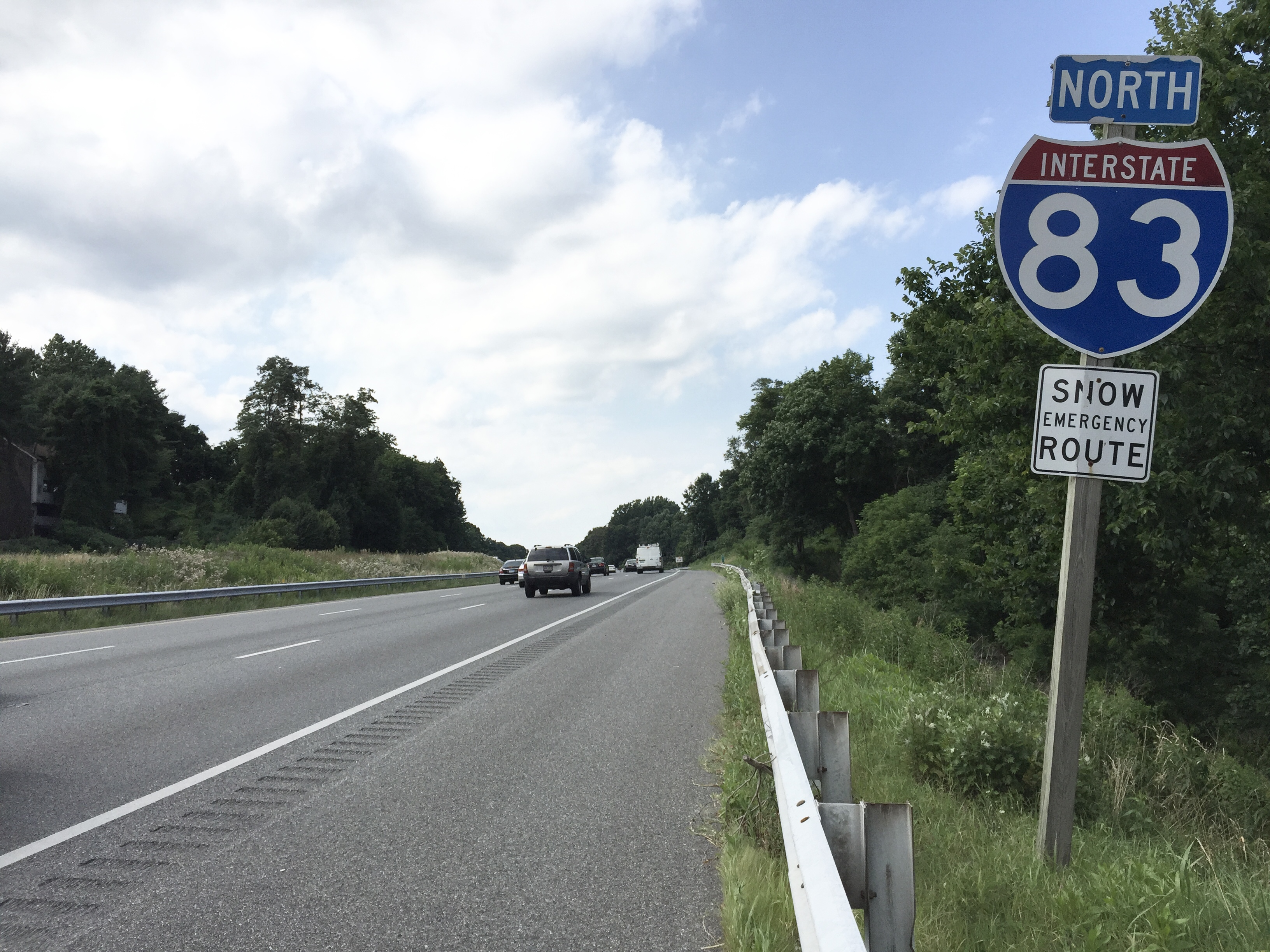 View north along Interstate 83 (Jones Falls Expressway) just north of Old Pimlico Road in Towson, Baltimore County, Maryland